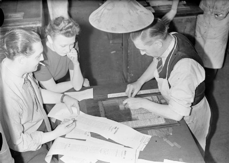 French Newspaper in Britain- Wartime News and Propaganda, England, 1942 Charles Gombault (left, smoking), a General Secretary of the 'France' newspaper, holds a galley proof as he consults a stone-hand who is making the 'stone'. The 'stone' is the basis on which the pages of a newspaper are built up before printing. A female colleague looks on.